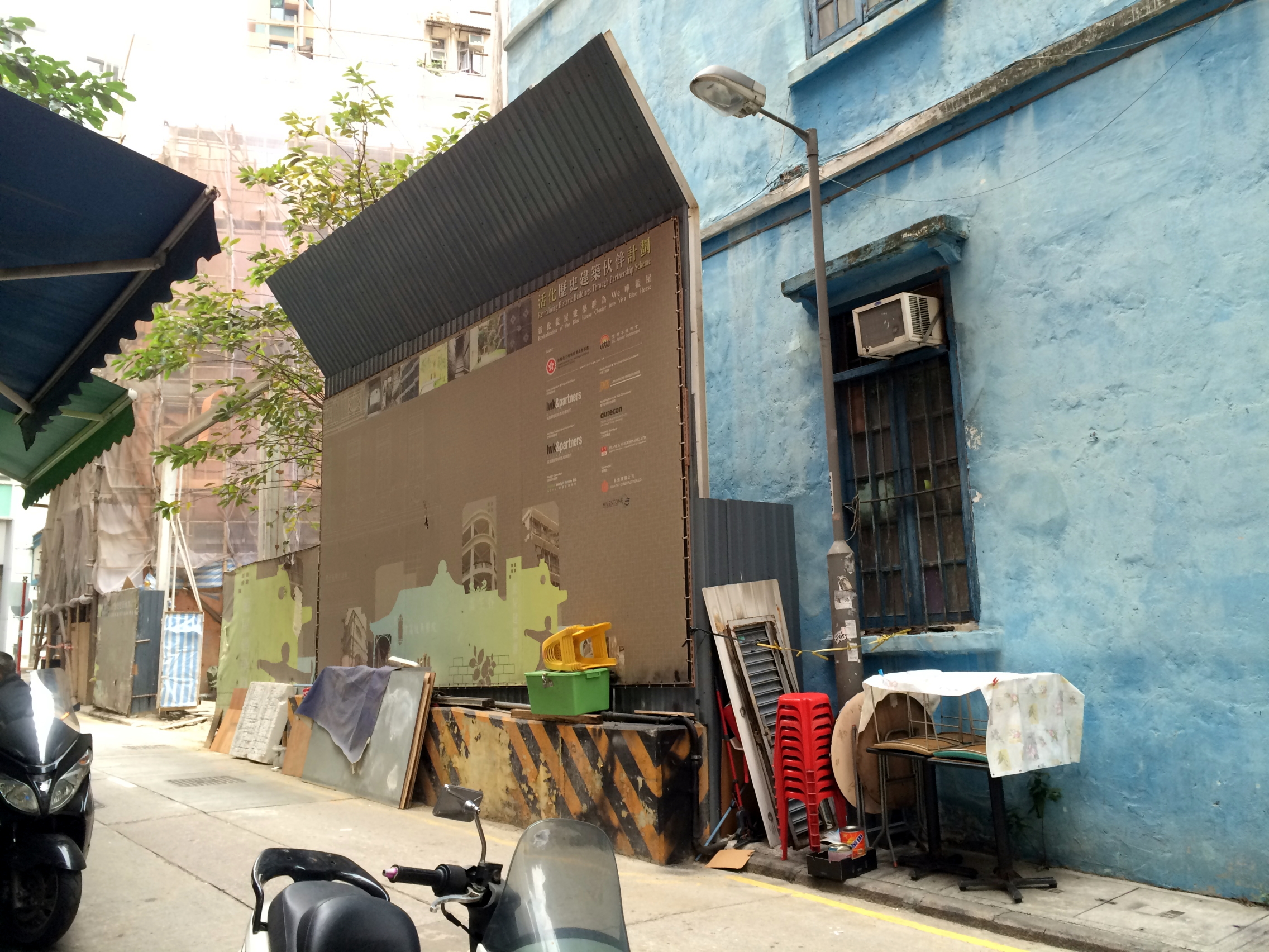 Blue House Renewal site